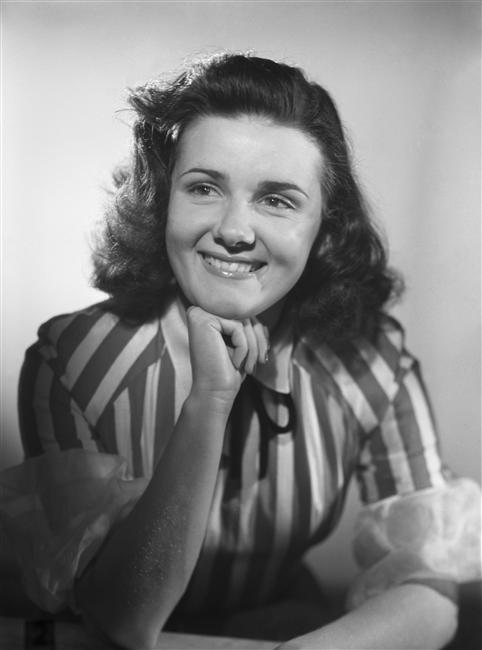 Studio photo